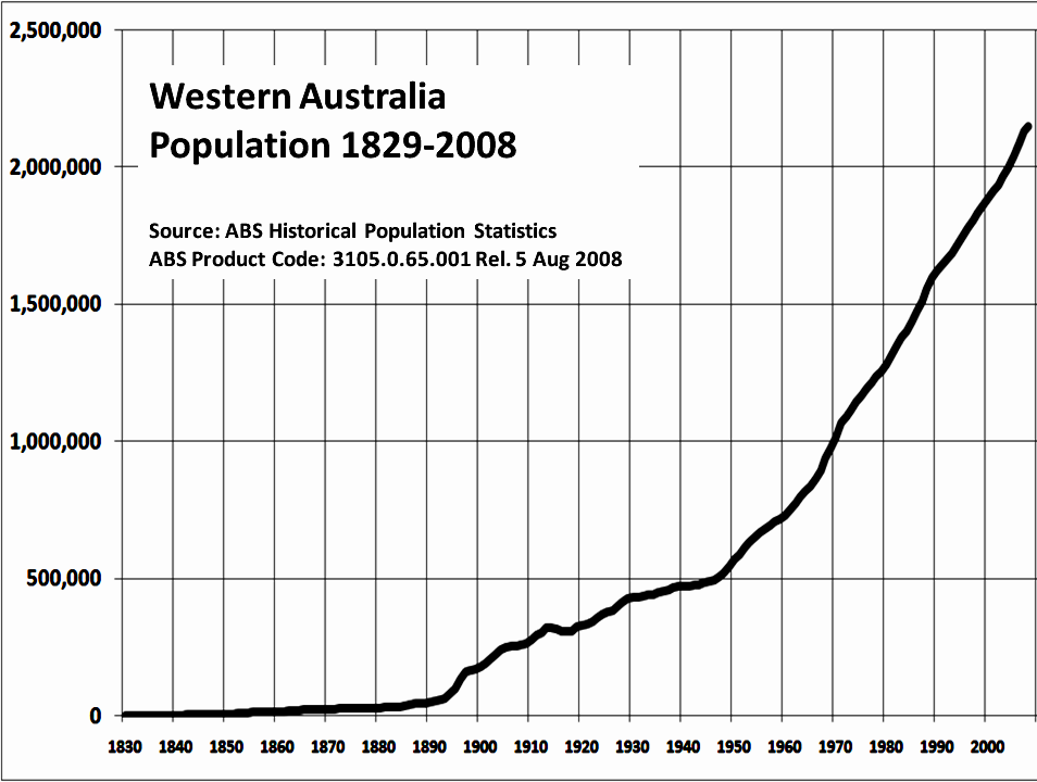 Population of Western Australia from 1829 to 2008 based on data from Australian Bureau of Statistics